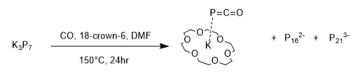 The chemical reaction scheme for the Goicoechea synthesis of the PCO anion from 2013.